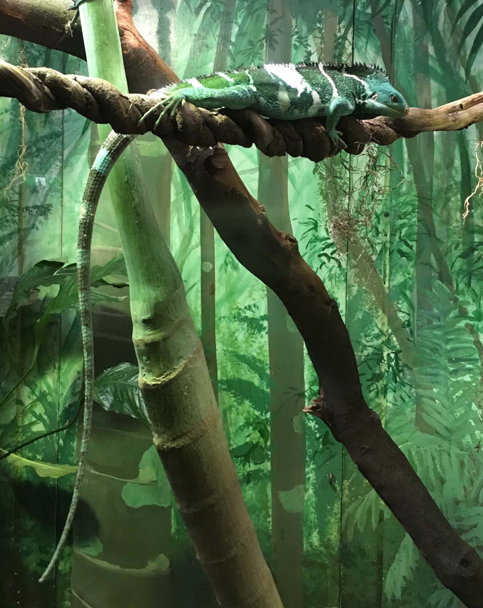 Fijian crested iguana on a branch at Taronga Zoo. The full length of the tail can be seen. The background is a painted mural in a rainforest pattern.